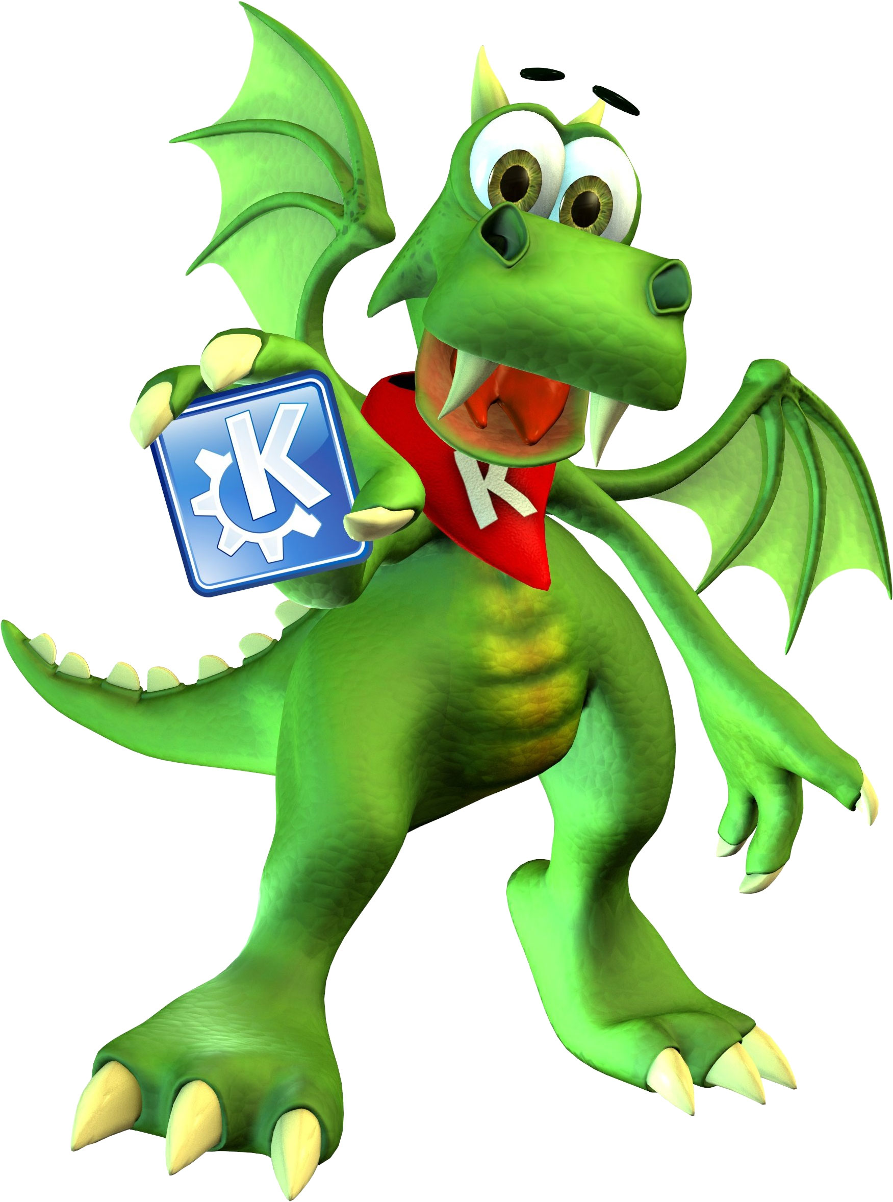 High Resolution image (1751px x 2356px) of the KDE-mascot "Konqi".